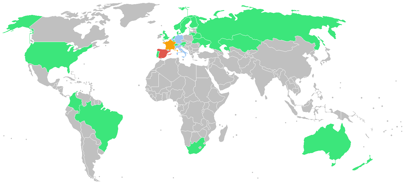 Shows participating nations in the 2007 Tour de France.